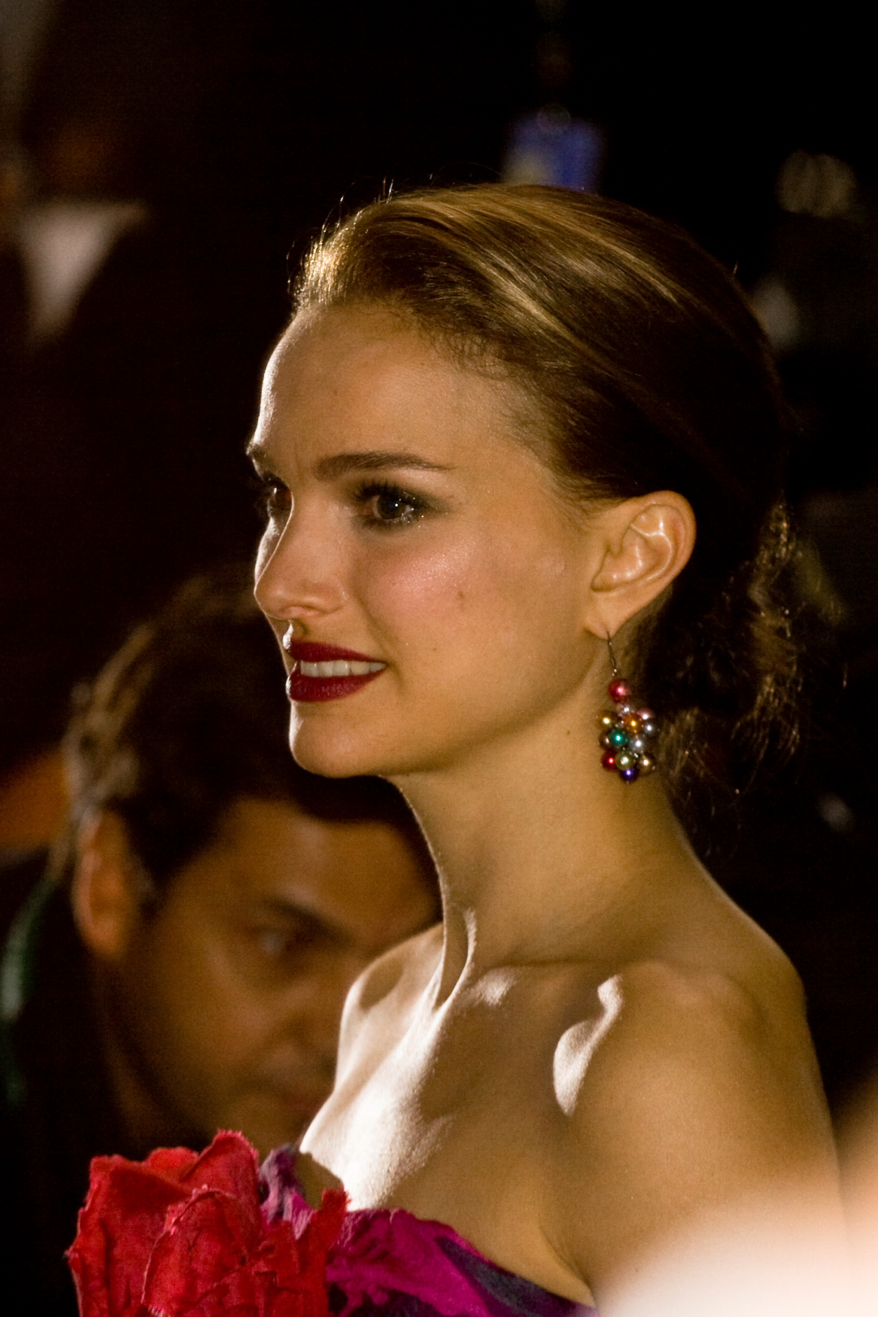 Natalie Portman at the TIFF 2009-01 at the premiere of "Love and Other Impossible Pursuits", directed by Don Roos, during the Toronto International Film Festival, 2009.